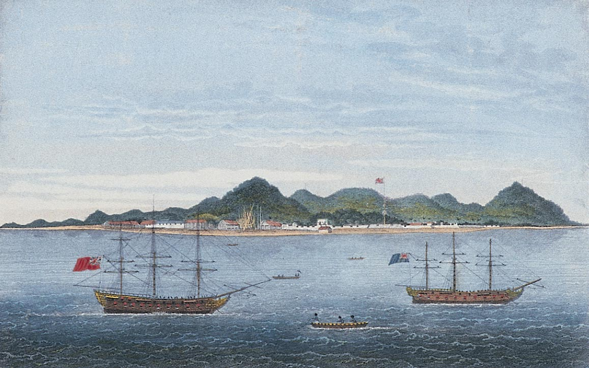 Title: Eastern Side of Pulo Penang, or Prince of Wales's Island, With Fort Cornwallis Media: Engraving Width: 435 mm (17.1 in) Height: 274 mm (10.8 in) Year of creation: 1810 Mode of acquisition: Purchased 1983 (Martyn Gregory)